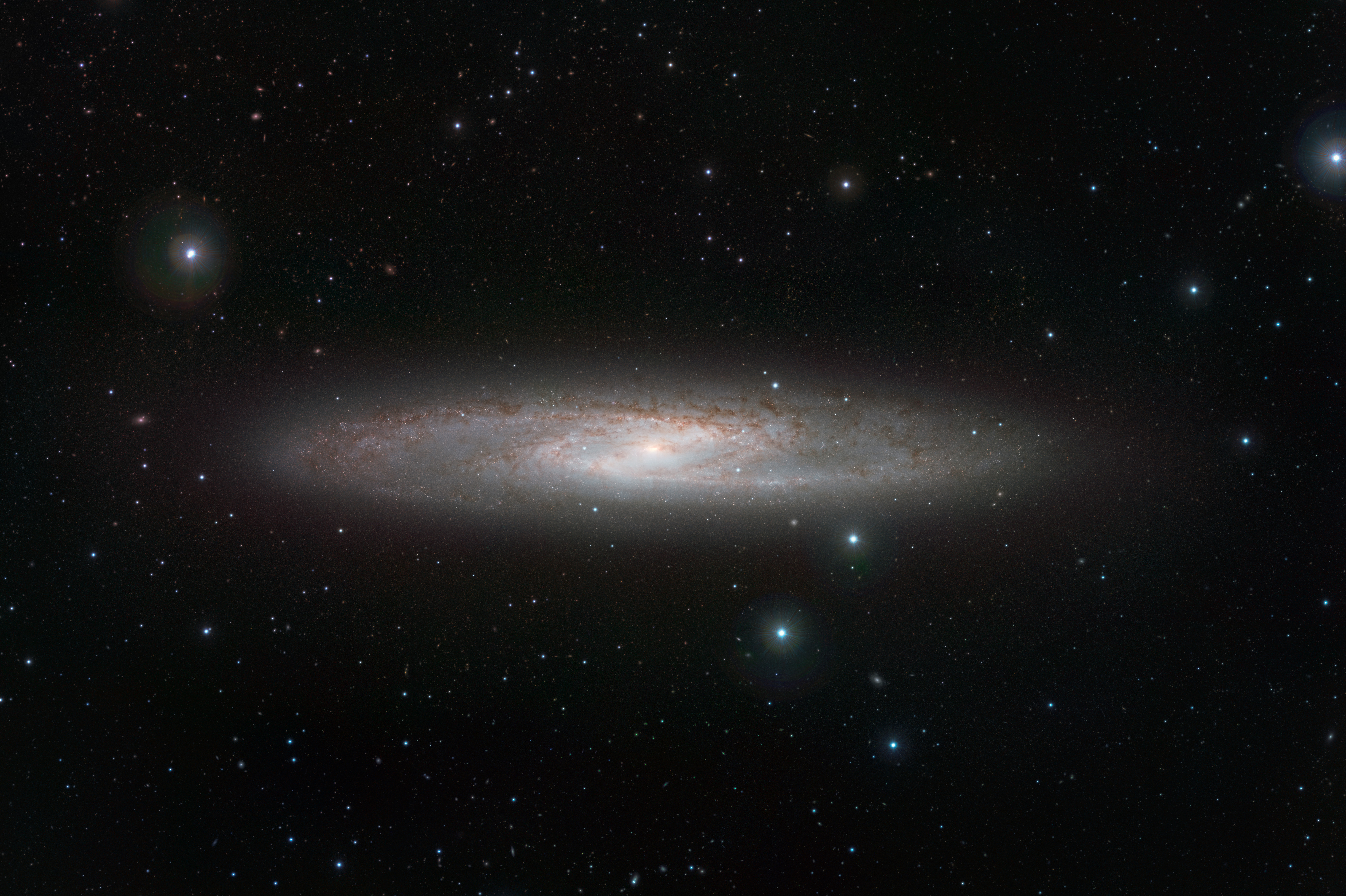 NGC 253 is one of the closest galaxies to our own. It is a bright spiral that lies about 13 million light-years from Earth in the southern constellation of Sculptor and is noted for being a starburst galaxy with very vigorous star formation and very dusty spiral arms. In the infrared, the rich dust clouds in the galaxy’s spiral arms become nearly transparent and a whole host of cool red stars that are otherwise invisible can be seen. The VISTA infrared images were taken through Y, Z, J, Ks and narrowband filters. The field of view is about 38 by 25 arcminutes.